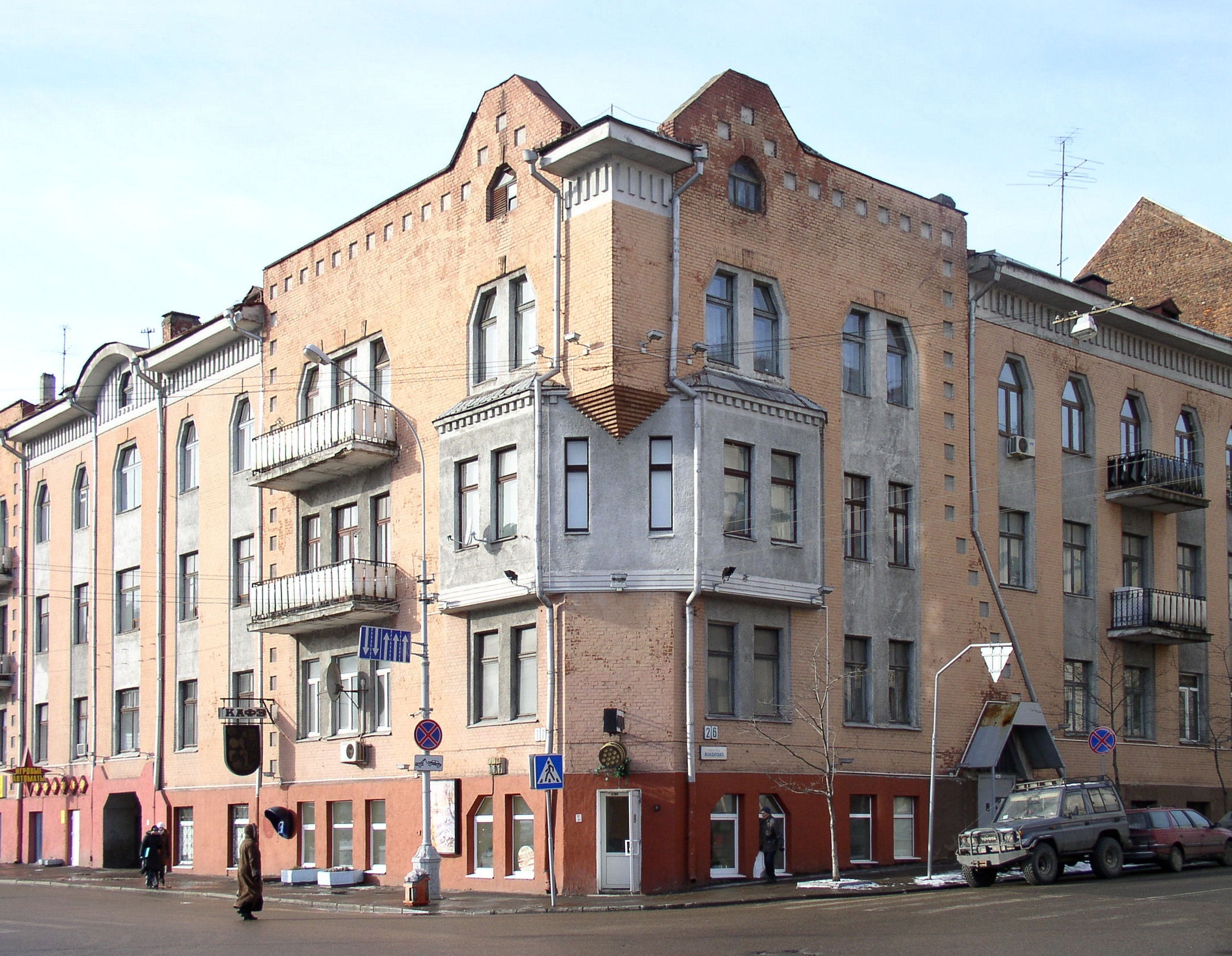 Kiraw street, 11/Valadarski street 26. Minsk, Belarus.